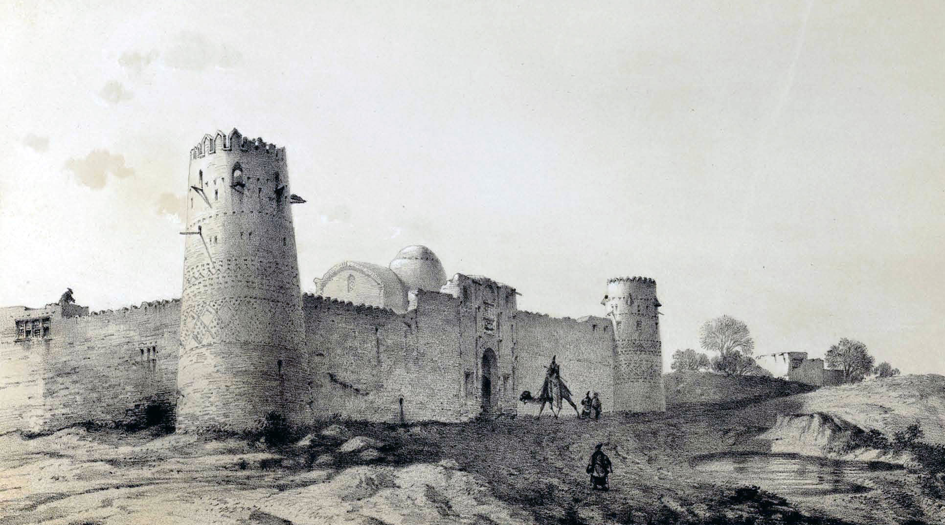 Fortified village Tagharood